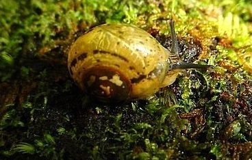 Endemic landsnail (Plegma caelatura) from Reunion Island, Mare Longue forest